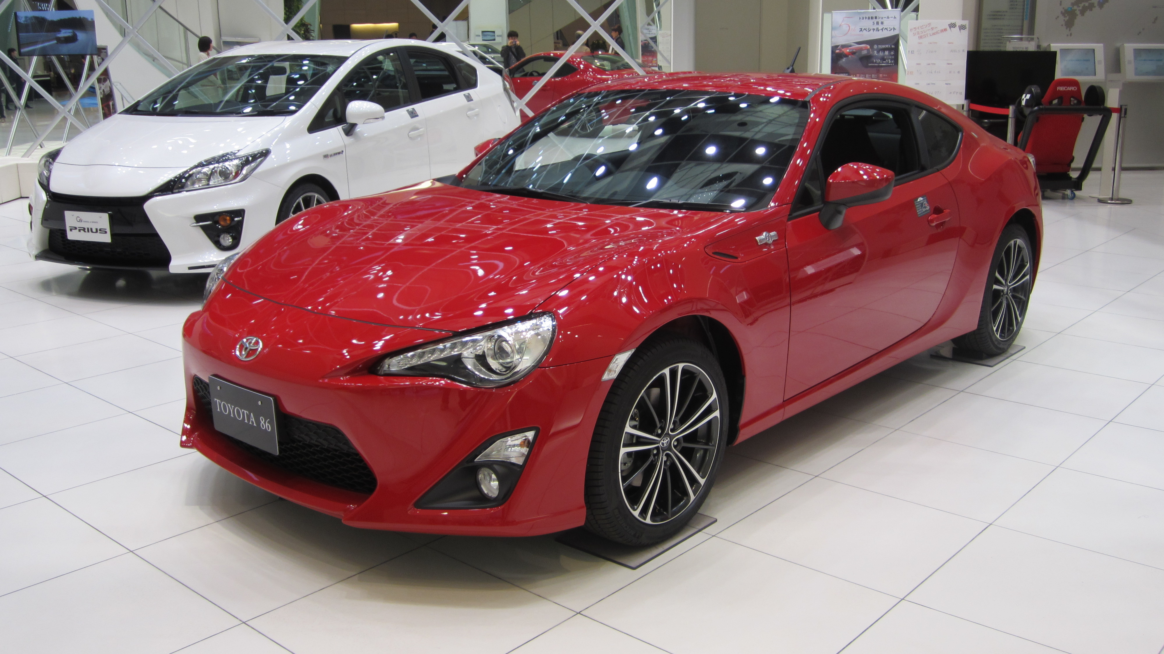 Toyota 86 GT